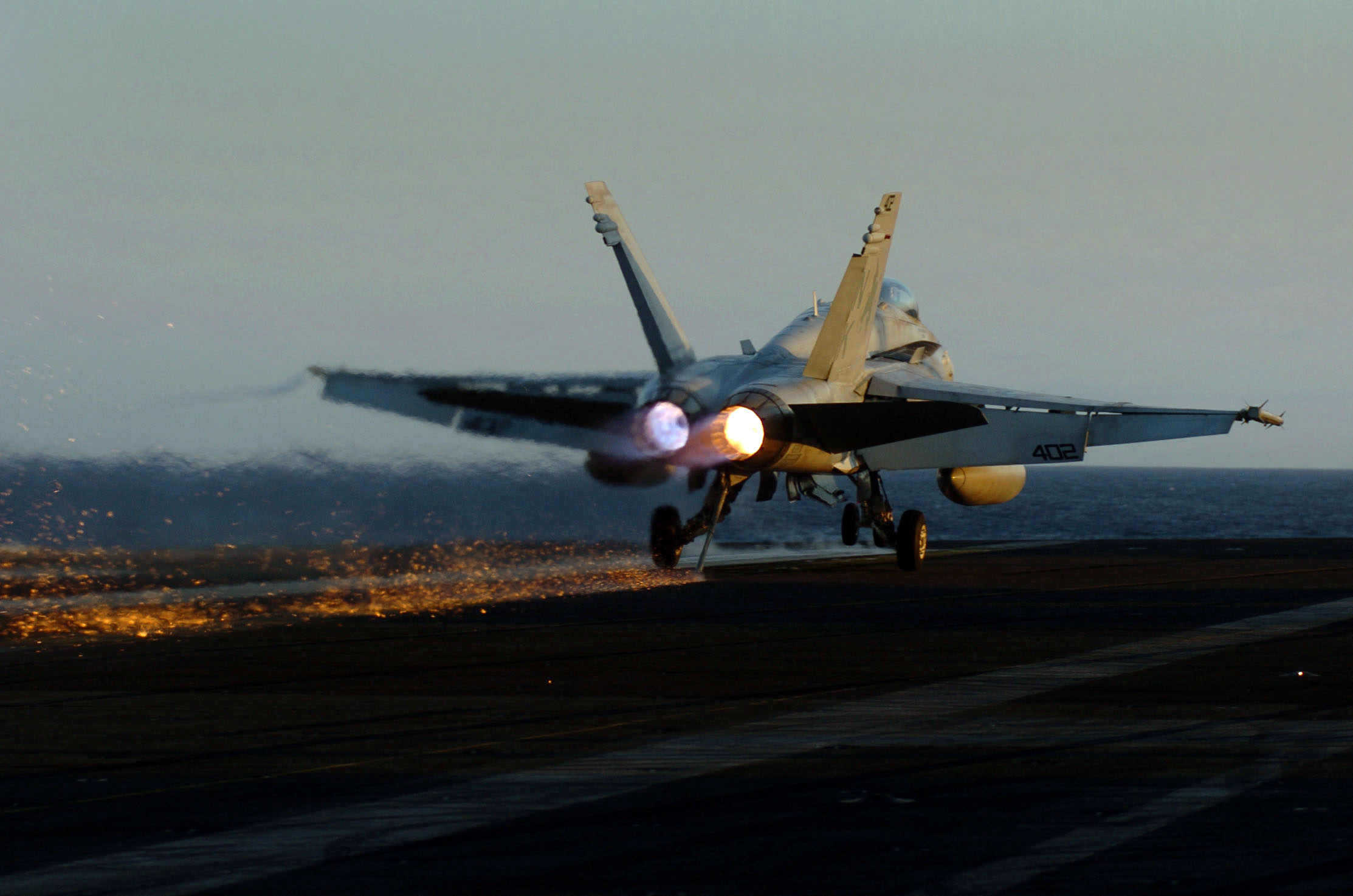 Indian Ocean (Sept. 21, 2004) - Sparks fly from the tailhook of an F/A-18C Hornet assigned to the "Fist of the Fleet" of Strike Fighter Squadron Two Five (VFA-25) as full power is applied after making a "bolter" aboard the Nimitz-class aircraft carrier USS John C. Stennis (CVN 74). A bolter is when the aircraft's tailhook fails to catch an arresting wire, causing the aircraft to apply full power and go back around for another try at landing. Stennis and embarked Carrier Air Wing Fourteen (CVW-14) are currently participating in a scheduled deployment to the Western Pacific Ocean. U.S. Navy photo by Photographer's Mate Airman Charlie Whetstine (RELEASED)